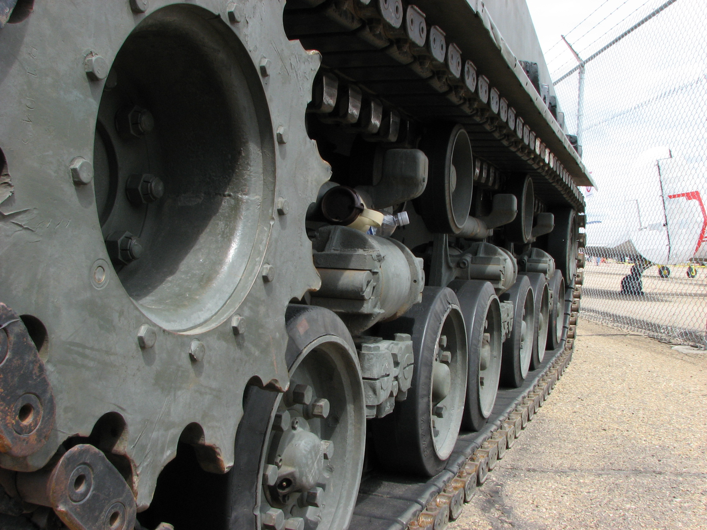 Medium Tank M4 Sherman "Catherine" detail of rear sproket and caterpillar track